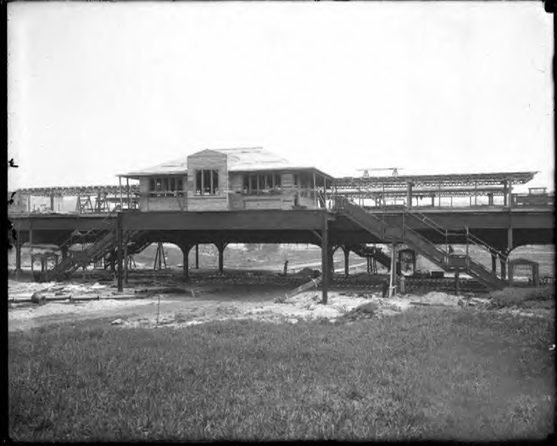 IRT 207th Street station under construction in 1906. This is a photo looking west, taken from where the current MTA yard is located. Notice the absence of any apartment buildings in the area. Development followed in the years that followed. From the collection of Herbert P. Maruska.